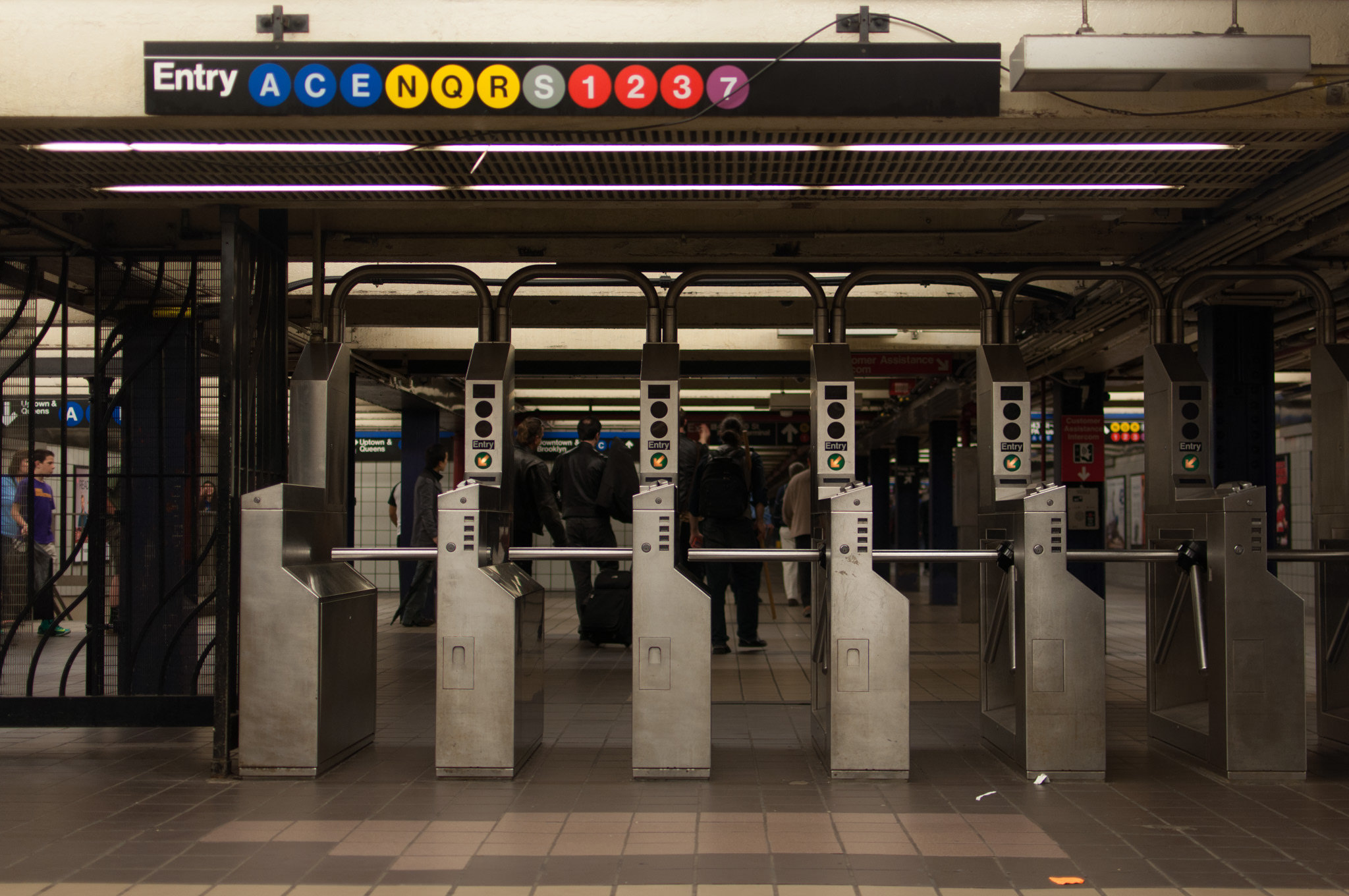 Times Square subway station